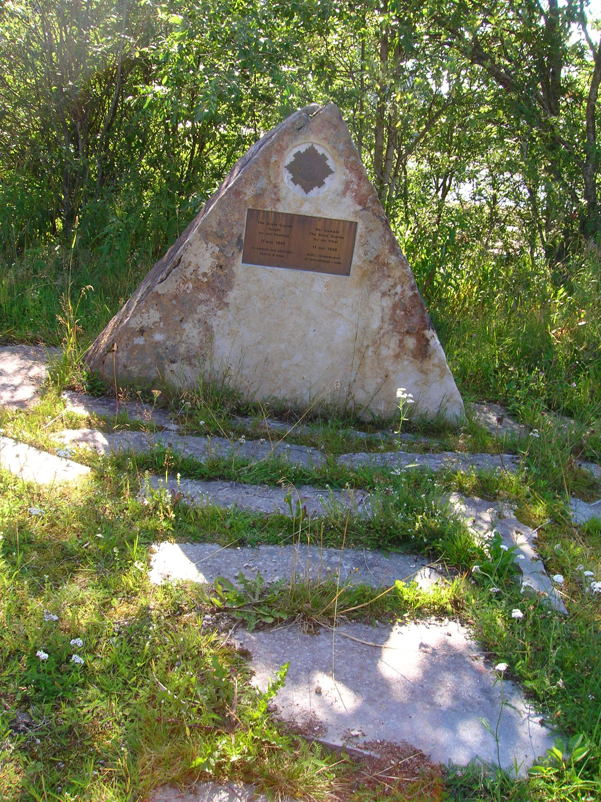 Memorial stone in Dalselv, Rana, of the Scots Guards who fought against the Nazis during World War II. Rana municipality, county of Nordland, Norway. Photo 8 August 2007 with a Nikon Coolpix 5600 5,1 Megapixel camera. The image is rotated 90° right with the program ACDSee version 6.0.6.